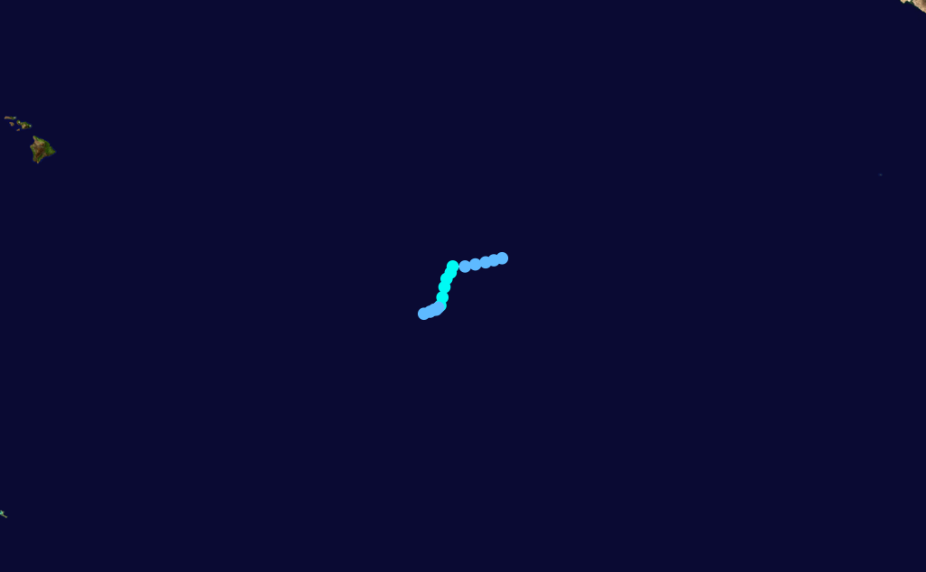 Tropical Storm Marty (1997) track. Uses the color scheme from the Saffir-Simpson Hurricane Scale.